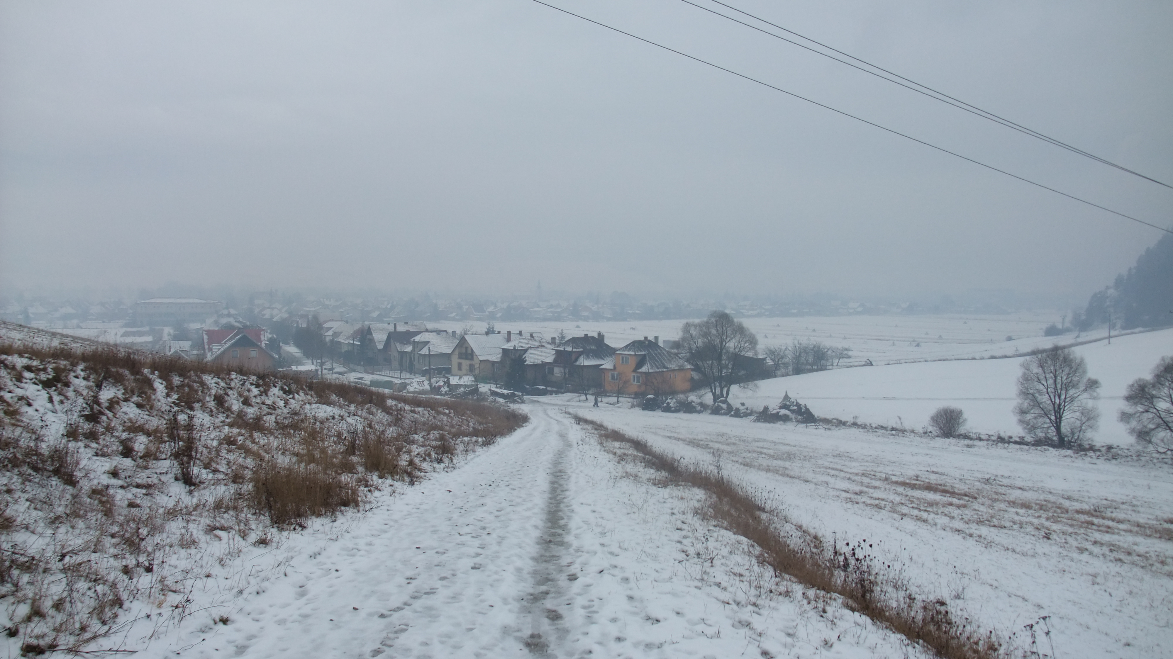 A photo of Liskova from the north side of the village